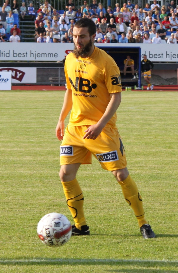 Mounir Hamoud for Bodø/Glimt in away game against Follo on 8 August 2010.